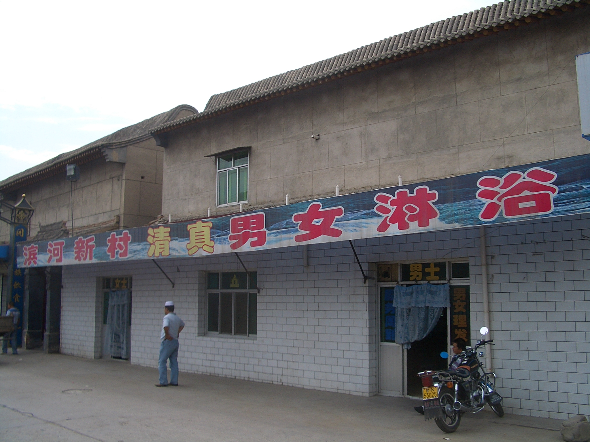 A "halal" (qingzhen) bathhouse in Linxia City, near the Southern Bus Station